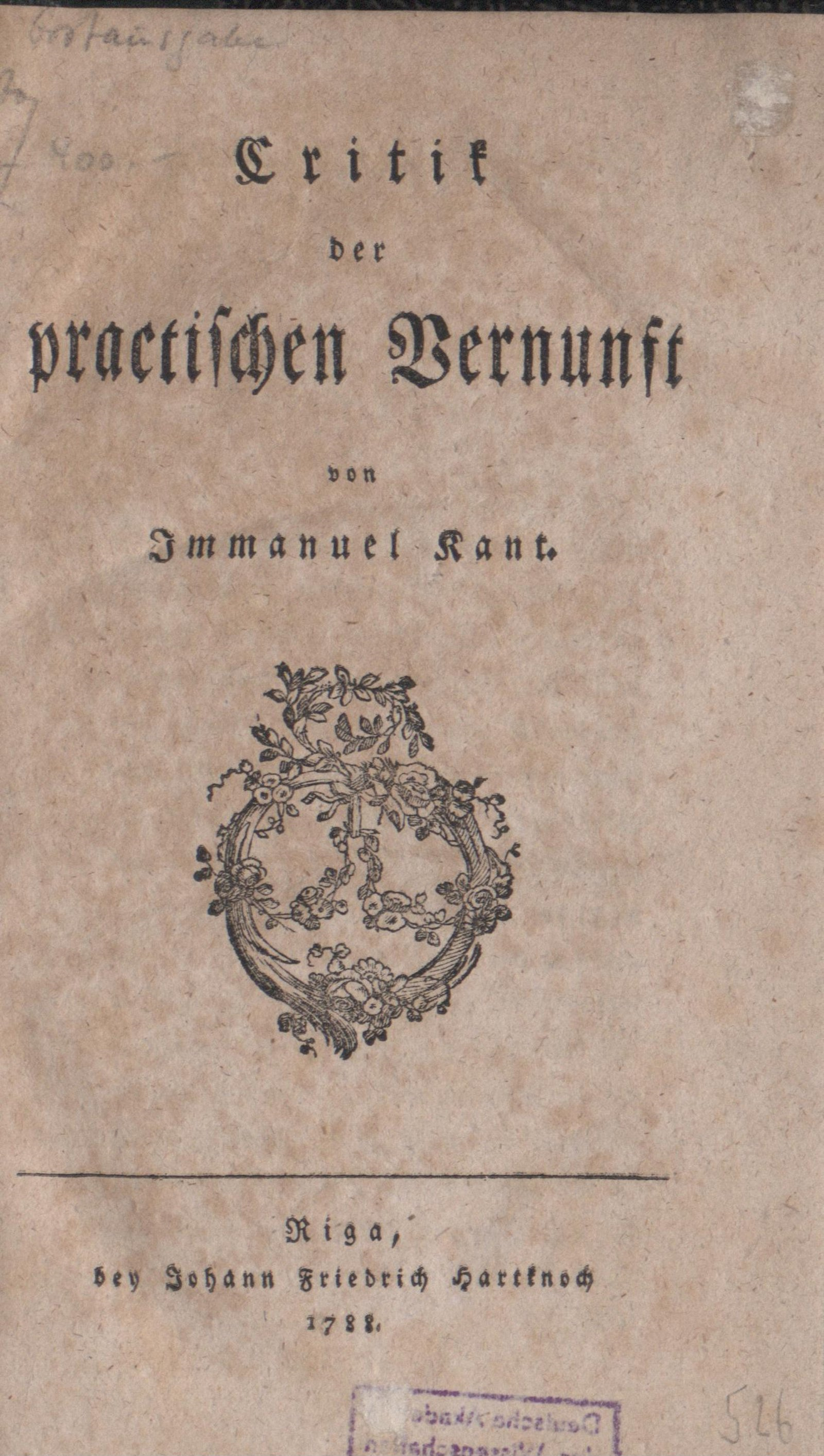 Front cover of Critique of Practical Reason (German edition)